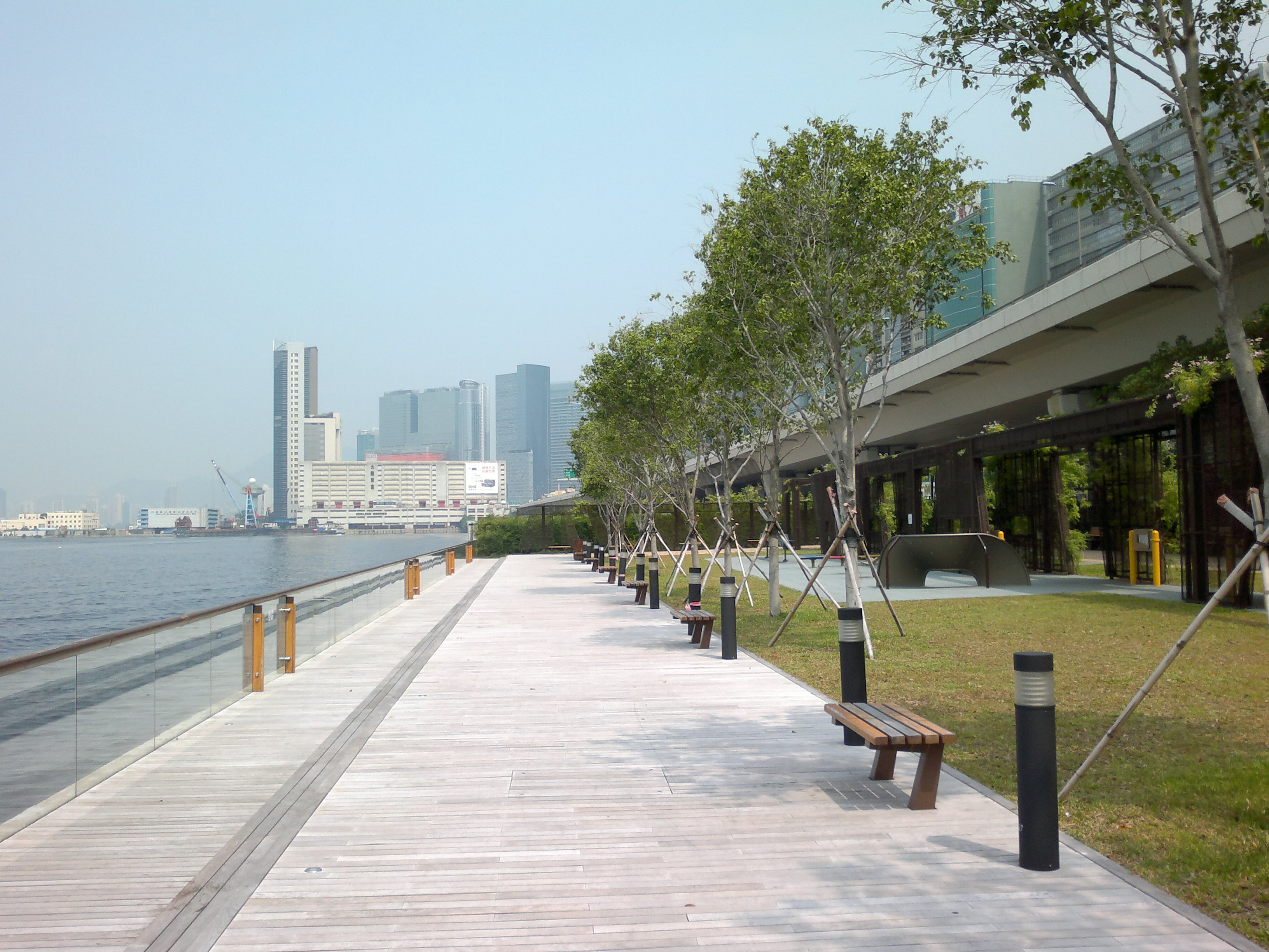 Kwun Tong Promenade Phase 1 North End